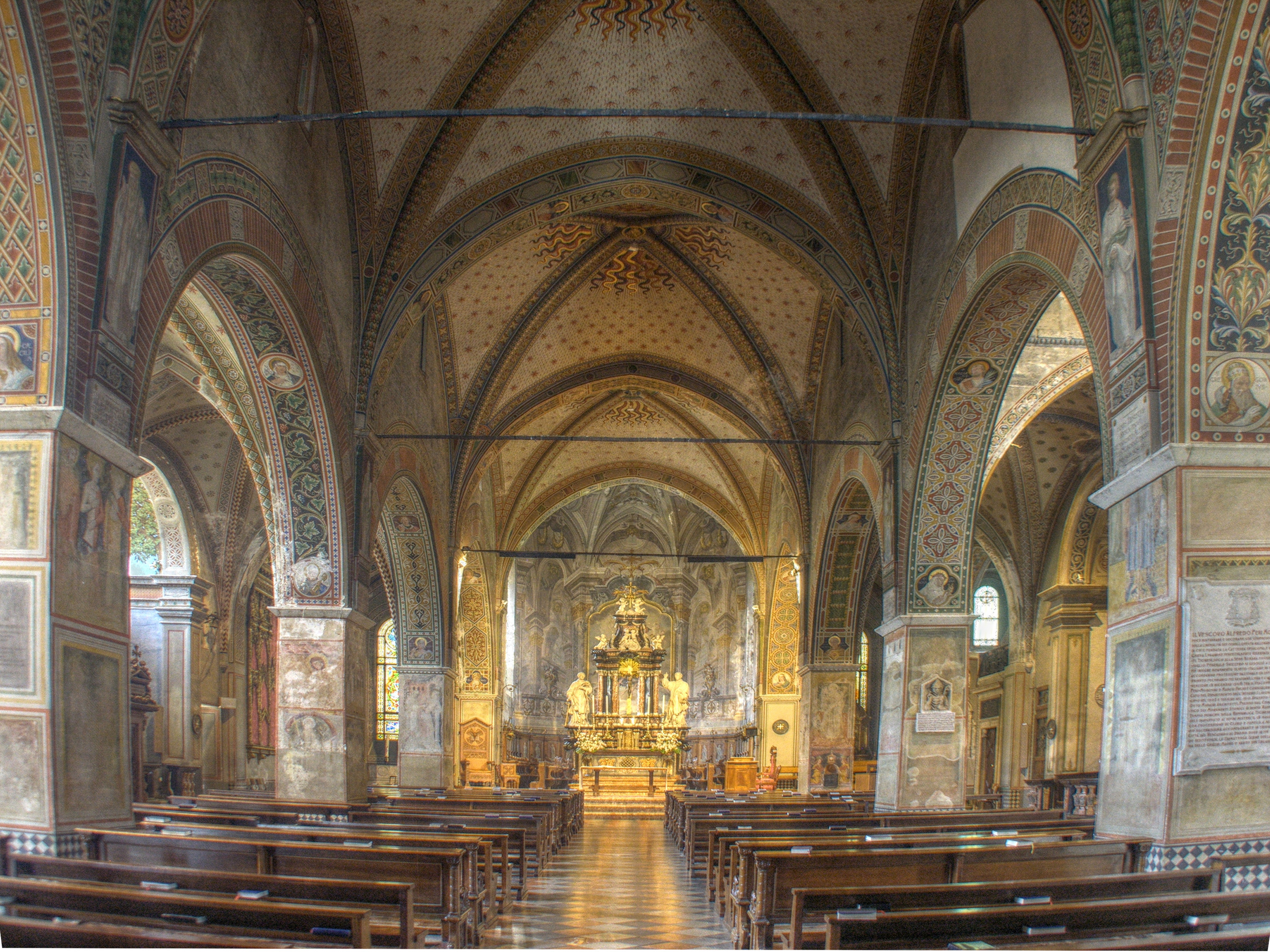 Lugano, Tessin, Switzerland, San Lorenzo cathedral - Interior view